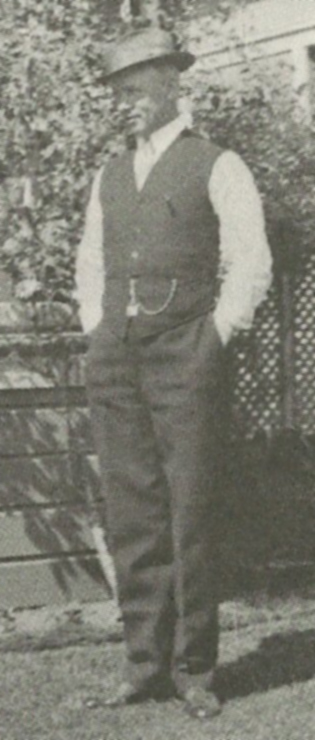 A picture of WH Weeks taken in 1905.